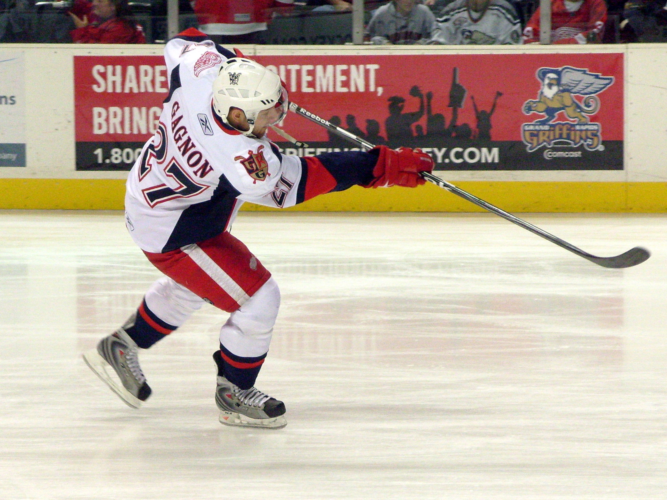 Aaron Gagnon of the Griffins takes a shot on net